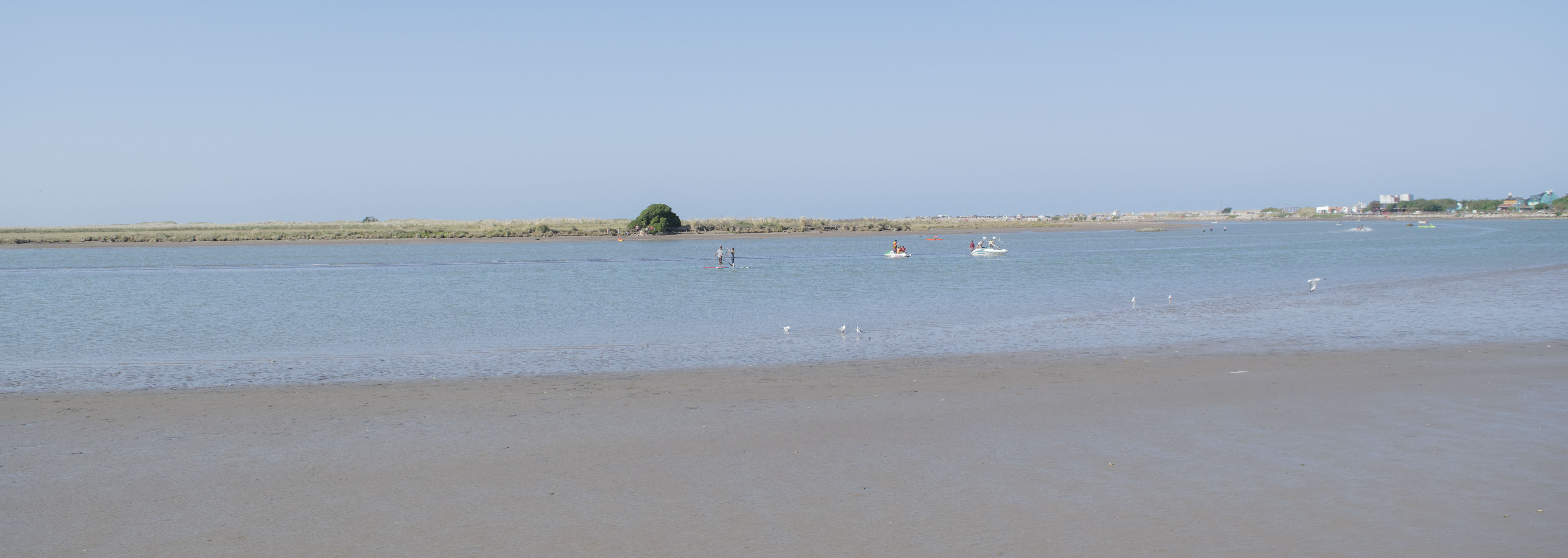 Mar Chiquita Lagoon, Buenos Aires provine, Argentina